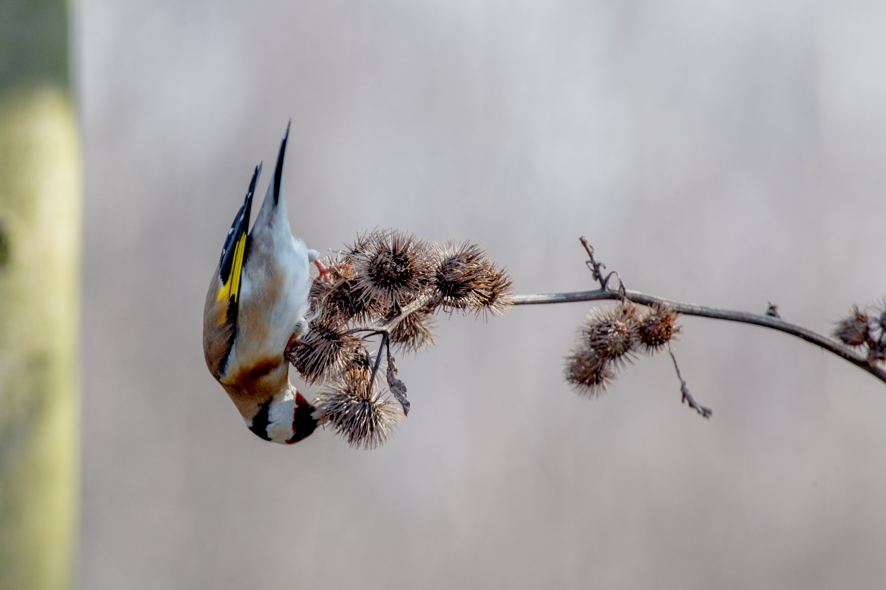 The Goldfinch, Lodz(Poland)